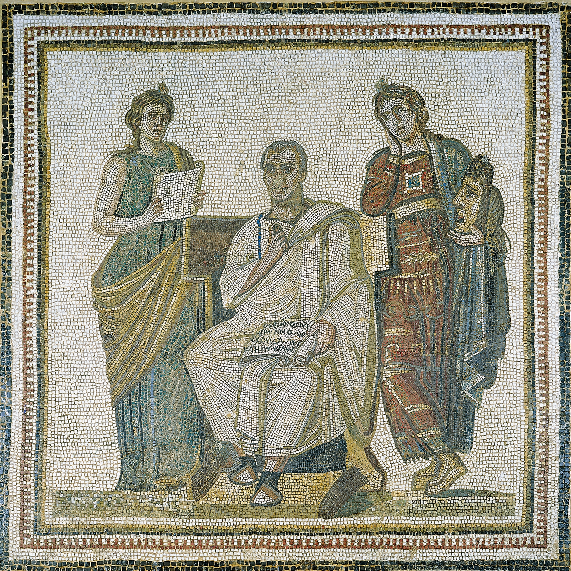 Virgil mosaic in the Bardo National Museum